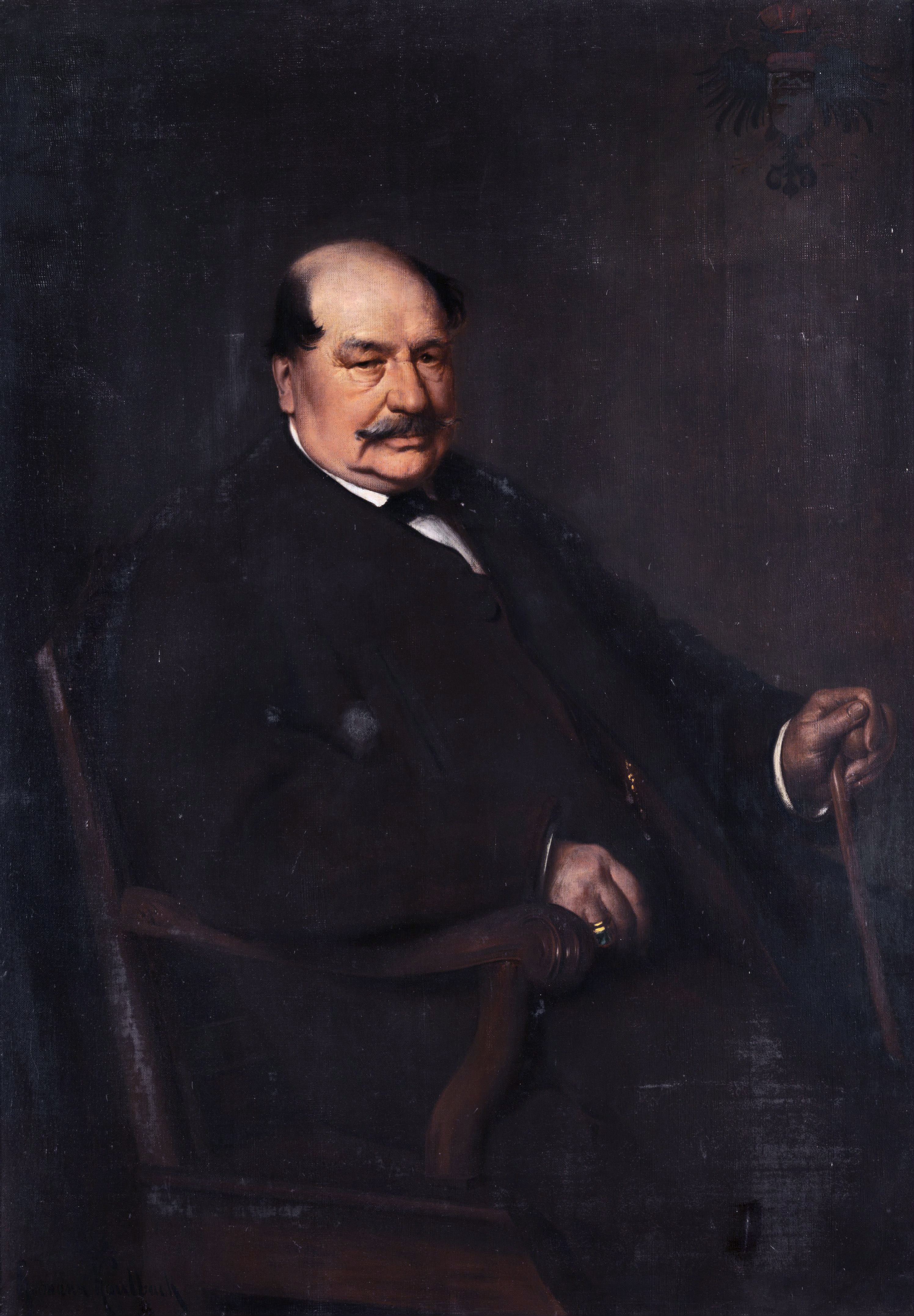 Graf Alois Nikolaus Ambros Graf von Arco-Stepperg (1808-1890) oil on canvas 124 x 85.5 cm